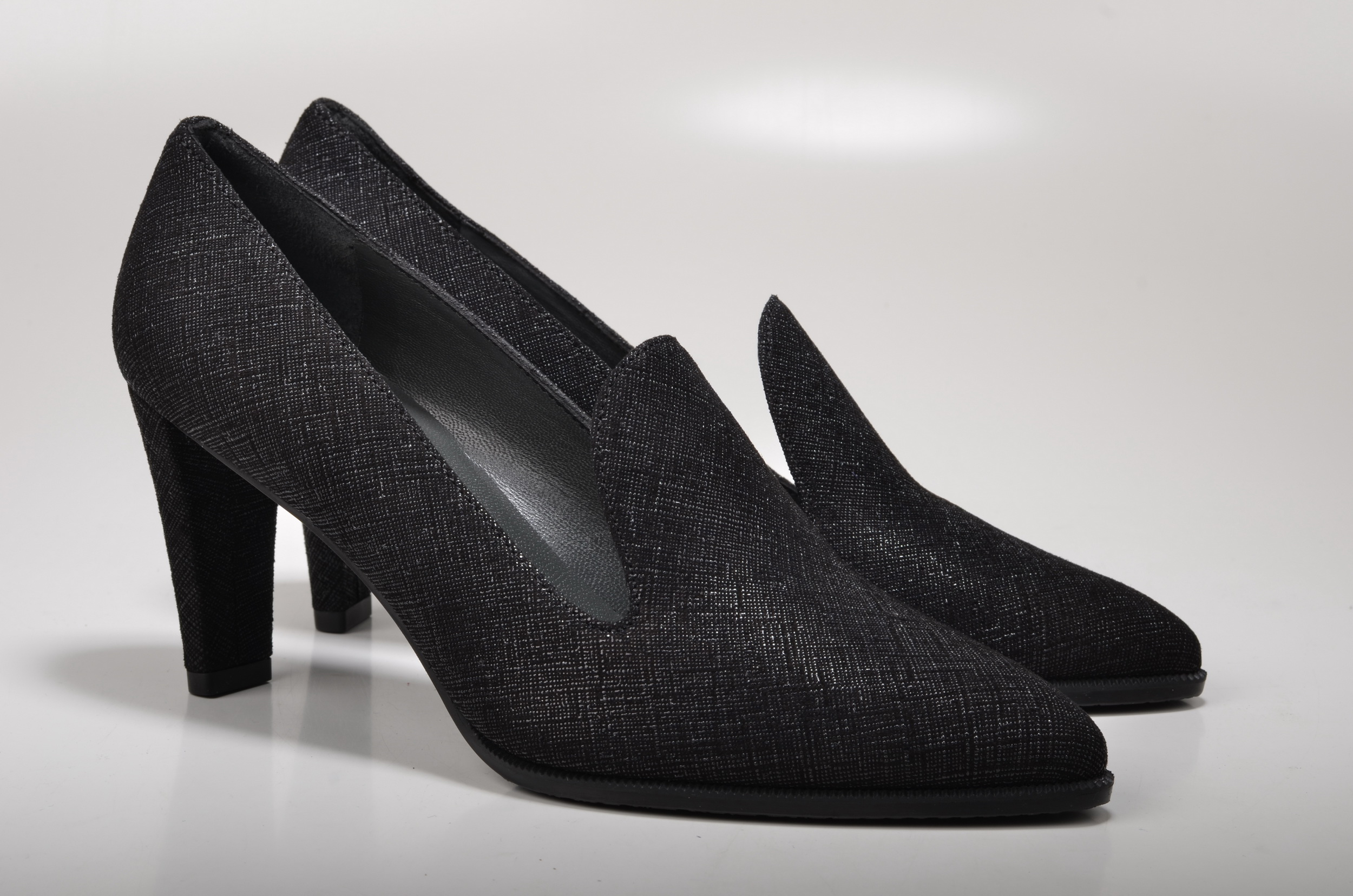 Photo of a pair of women's shoes with block kitten heels by designer Stuart Weitzman